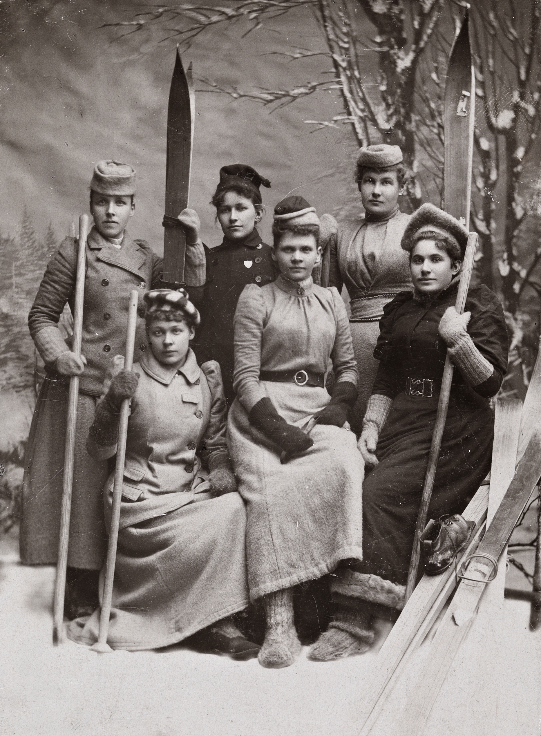 Tittel / Title: Seks unge kvinner fra Kristiania skiforening Beskrivelse / Description: Kabinettkort / Cabinet card. Fra venstre: Fru Tönder, Frk. Kristoffersen, Hilda Gramer(?), Frk Ericksen, Frk Hagen, Kisten Gramer(?). Dato / Date: 1890-årene Fotograf / Photographer: Gihbsson (Christiania) Sted / Place: Oslo Eier / Owner Institution: Nasjonalbiblioteket / National Library of Norway Lenke / Link: Bildesignatur / Image Number: bldsa_FA1268